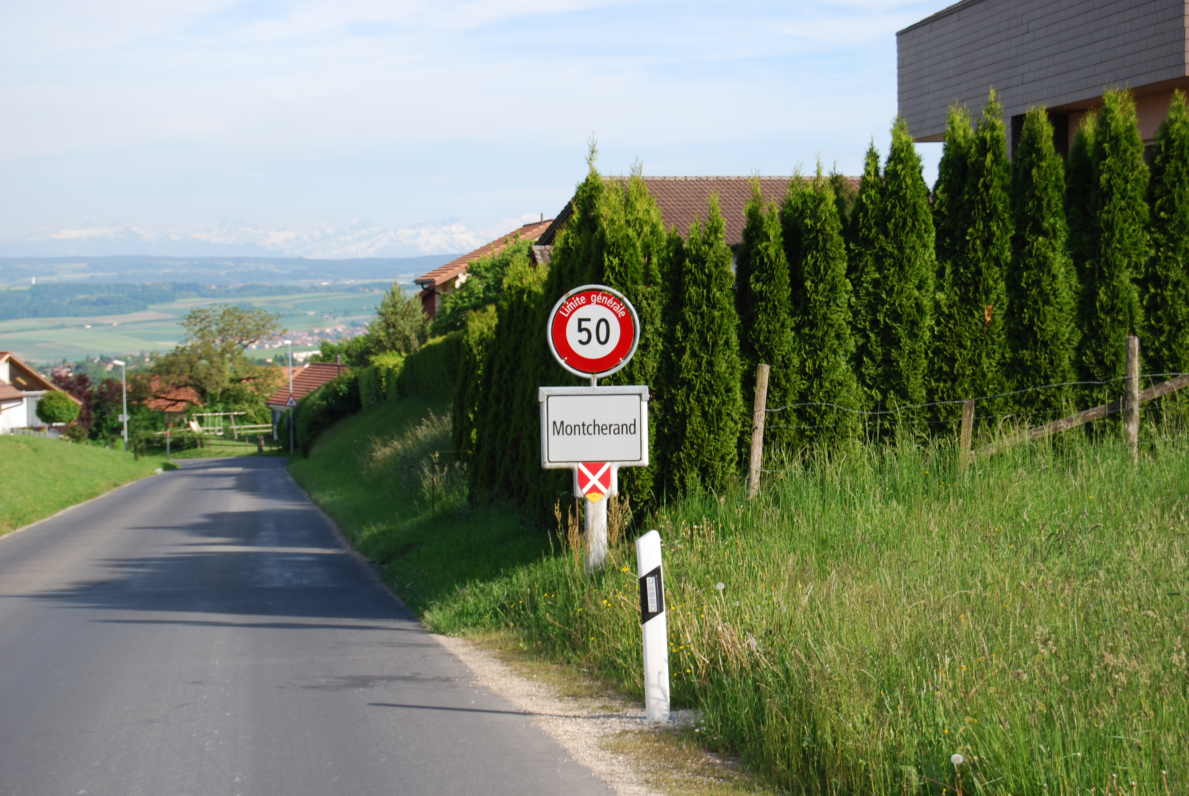 Montcherand, canton of Vaud, SwitzerlandEsperanto: Montcherand, Kantono Vaŭdo, Svislando